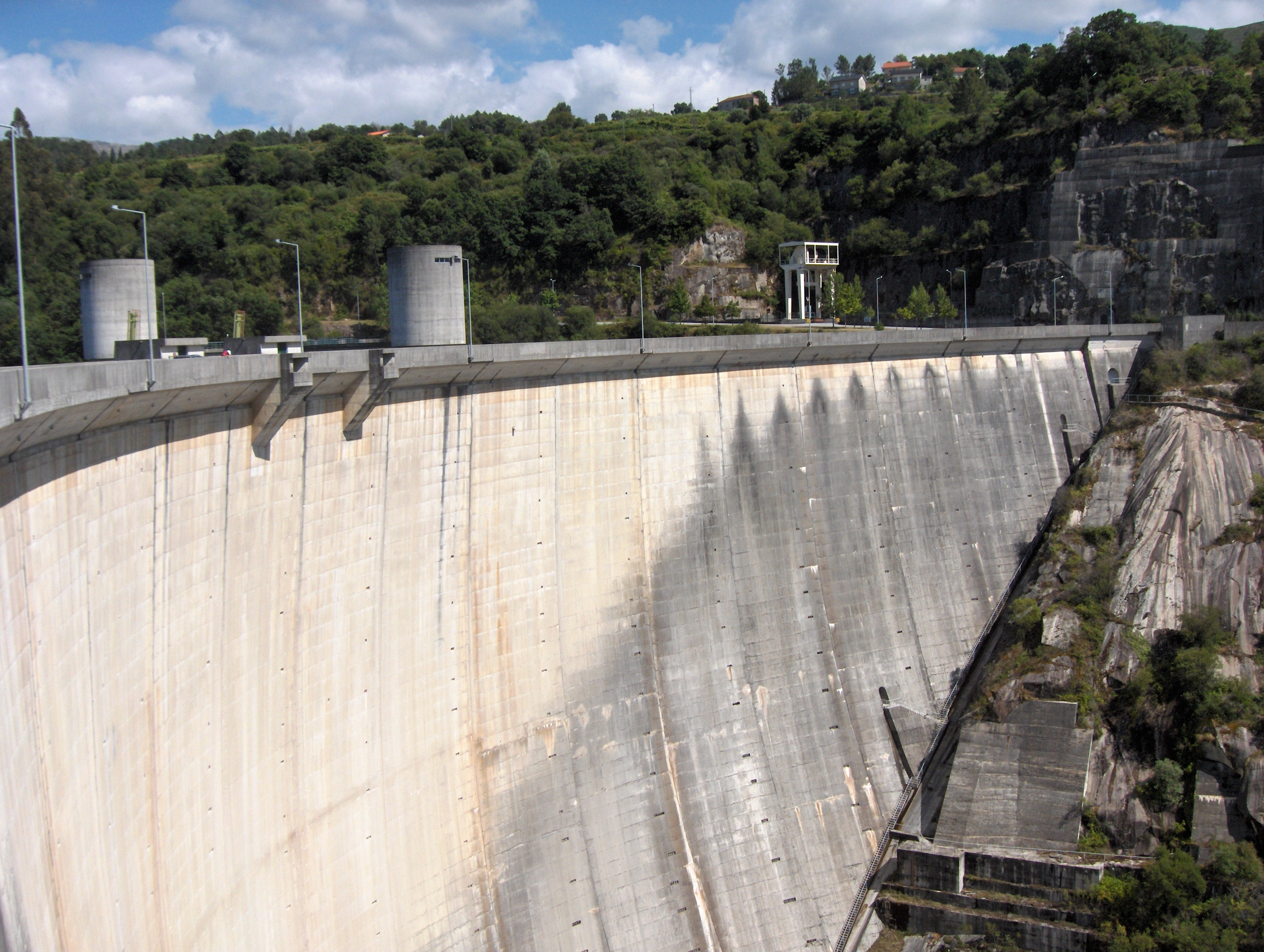 Lindoso dam in Parque Nacional da Peneda-Gerês, Portugal